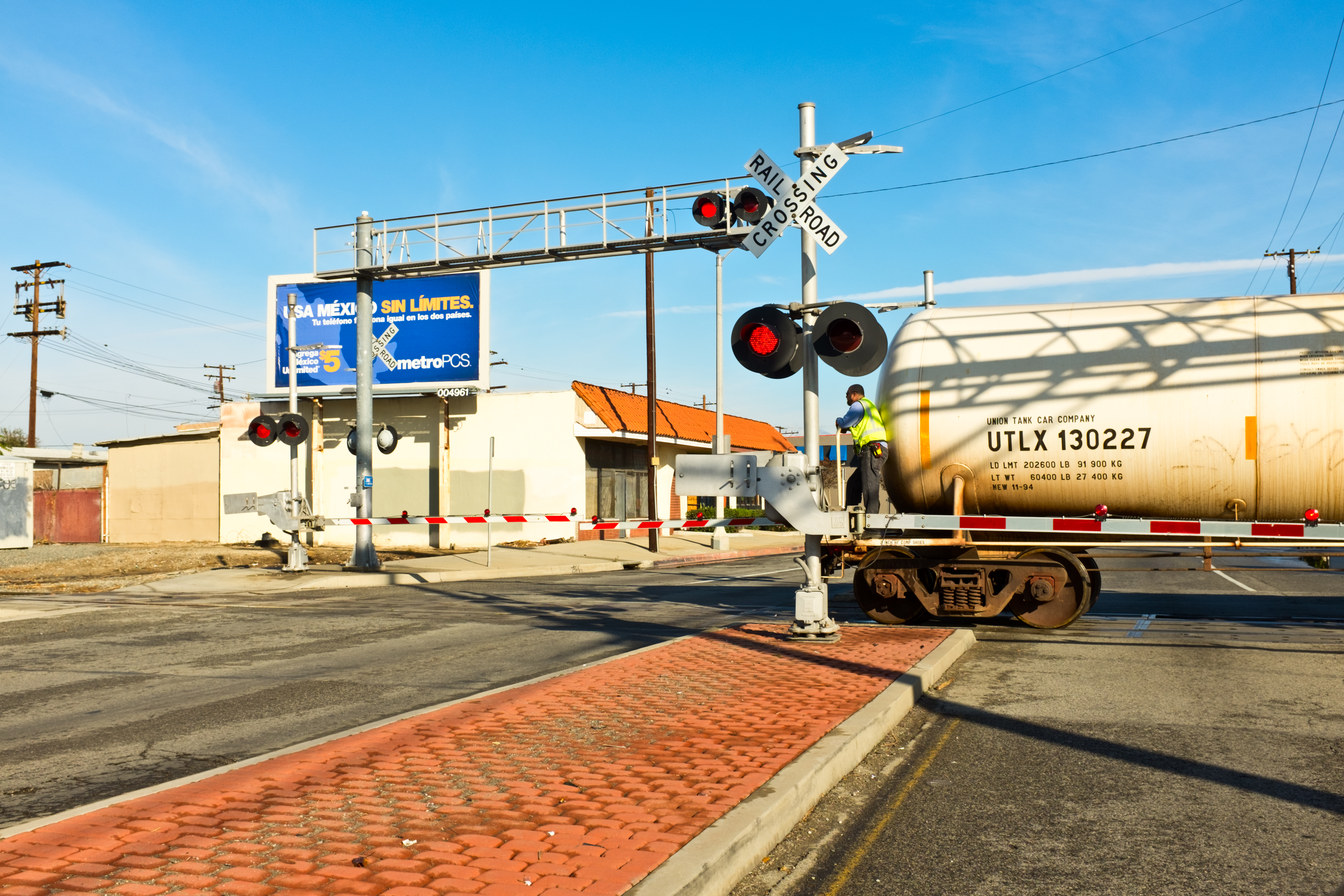 Union Pacific train backing up, with a Lookout (employee) on tank car to see what's in "front" of the train, in Santa Fe Springs, CA, in December 2015. Since there is no caboose, the lookout has to stand on the last car of the train.